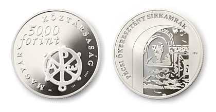 Ancient Christian Catacombs of Pécs, collector coin made of silver, struck, 2004. Designer: Laszlo Szlavics, Jr.